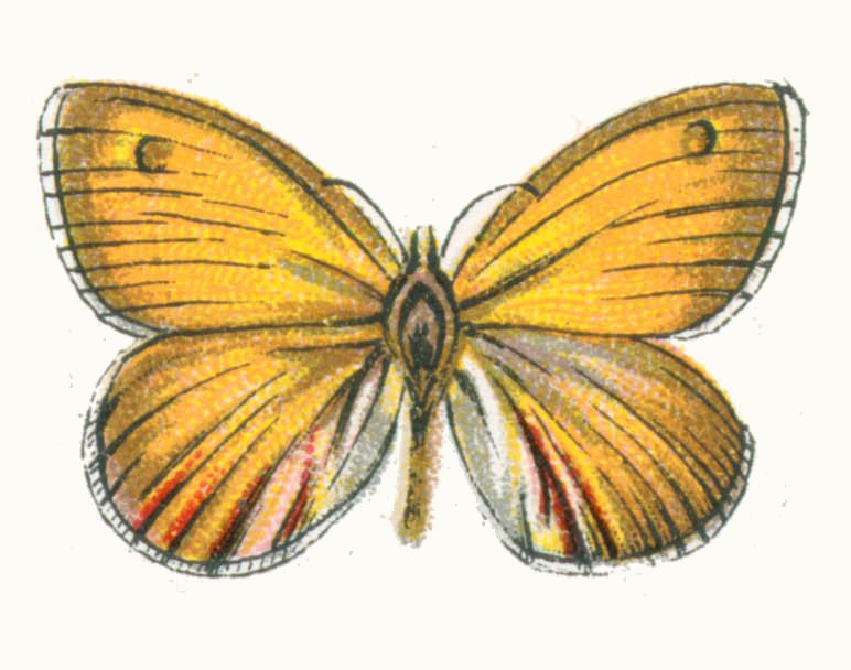 Coenonympha pamphilus